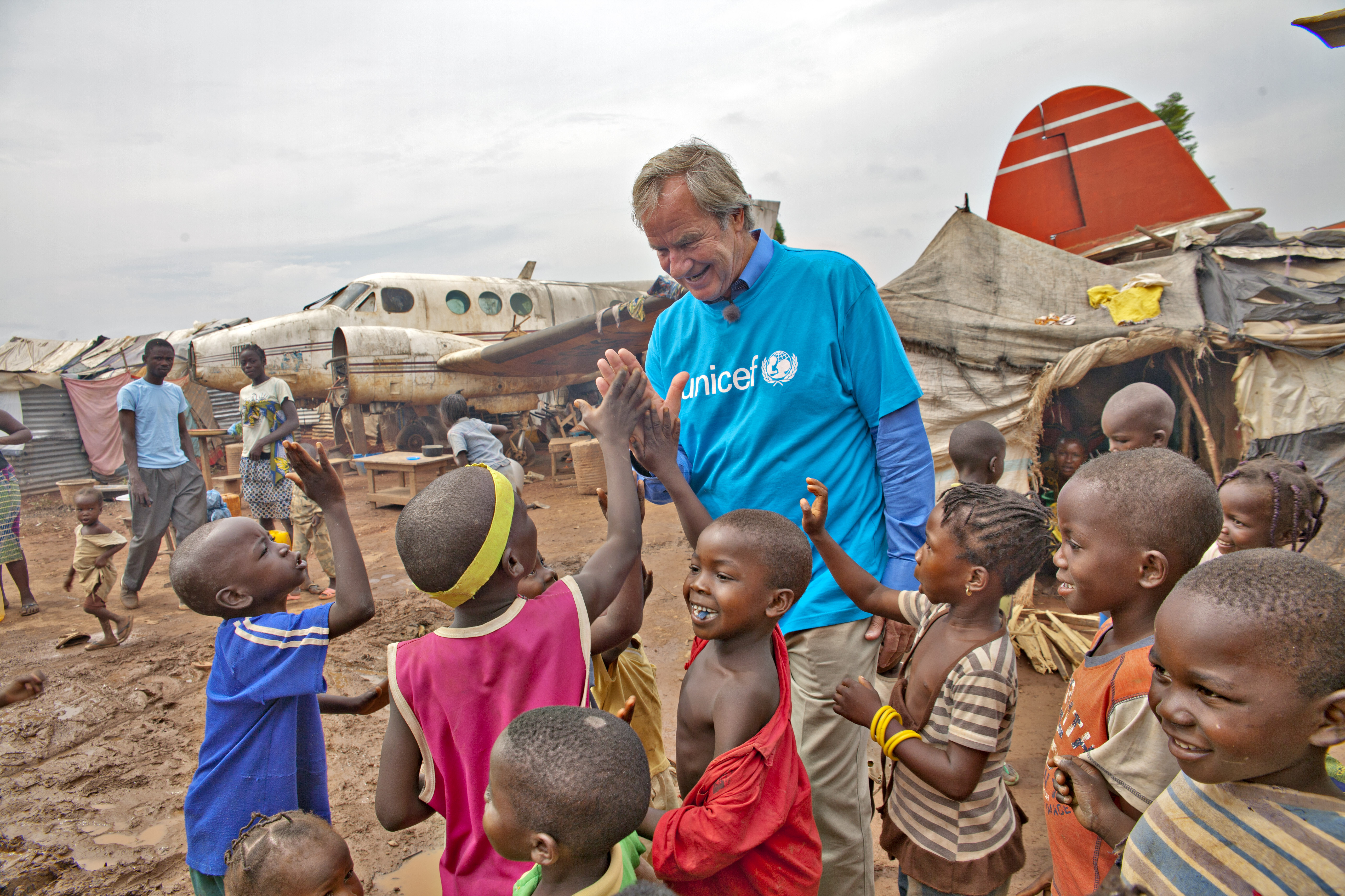 Bjørn Kjos with children in Bangui